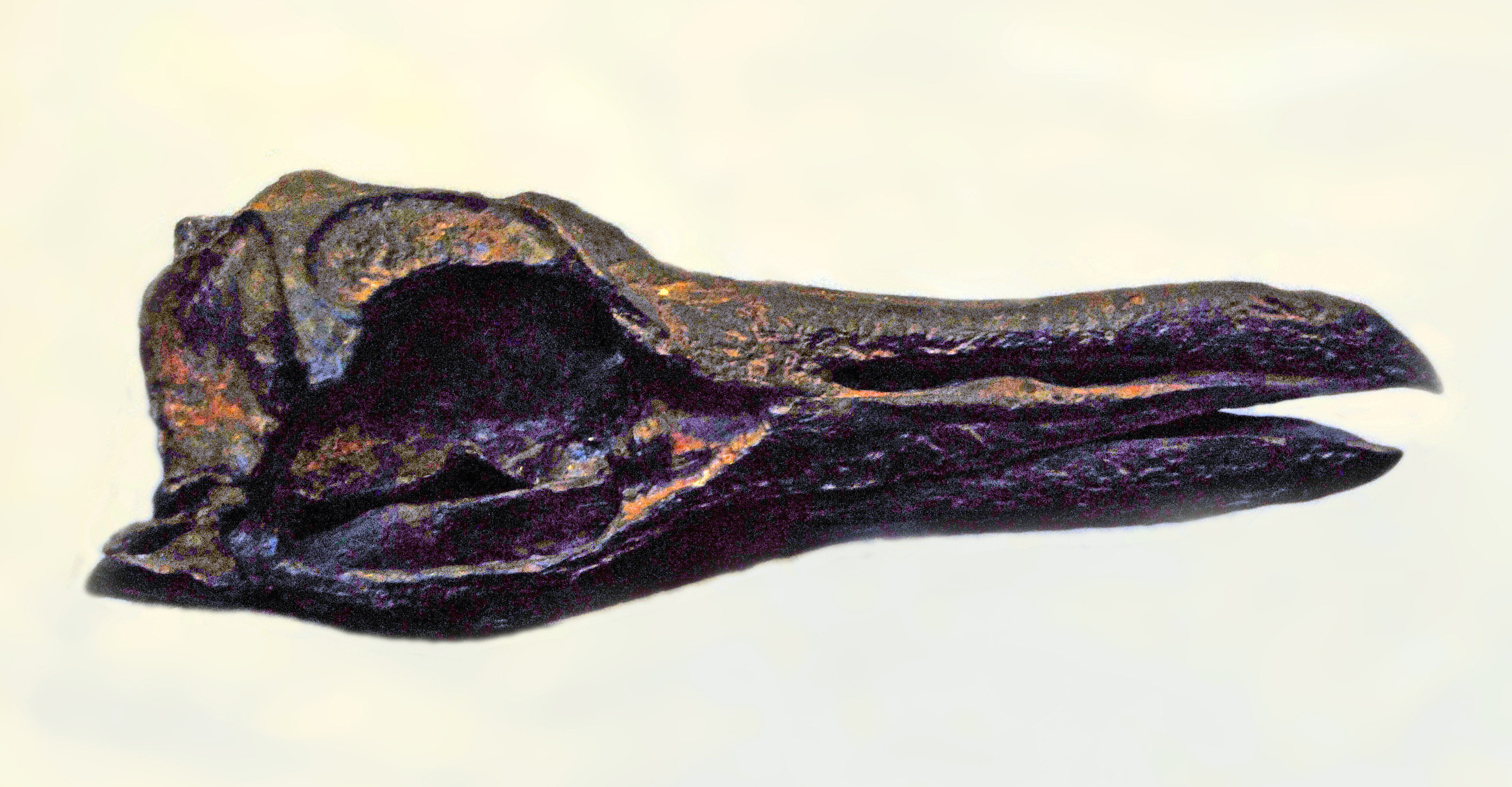 Fossil skull of Palaeospheniscus from Peru